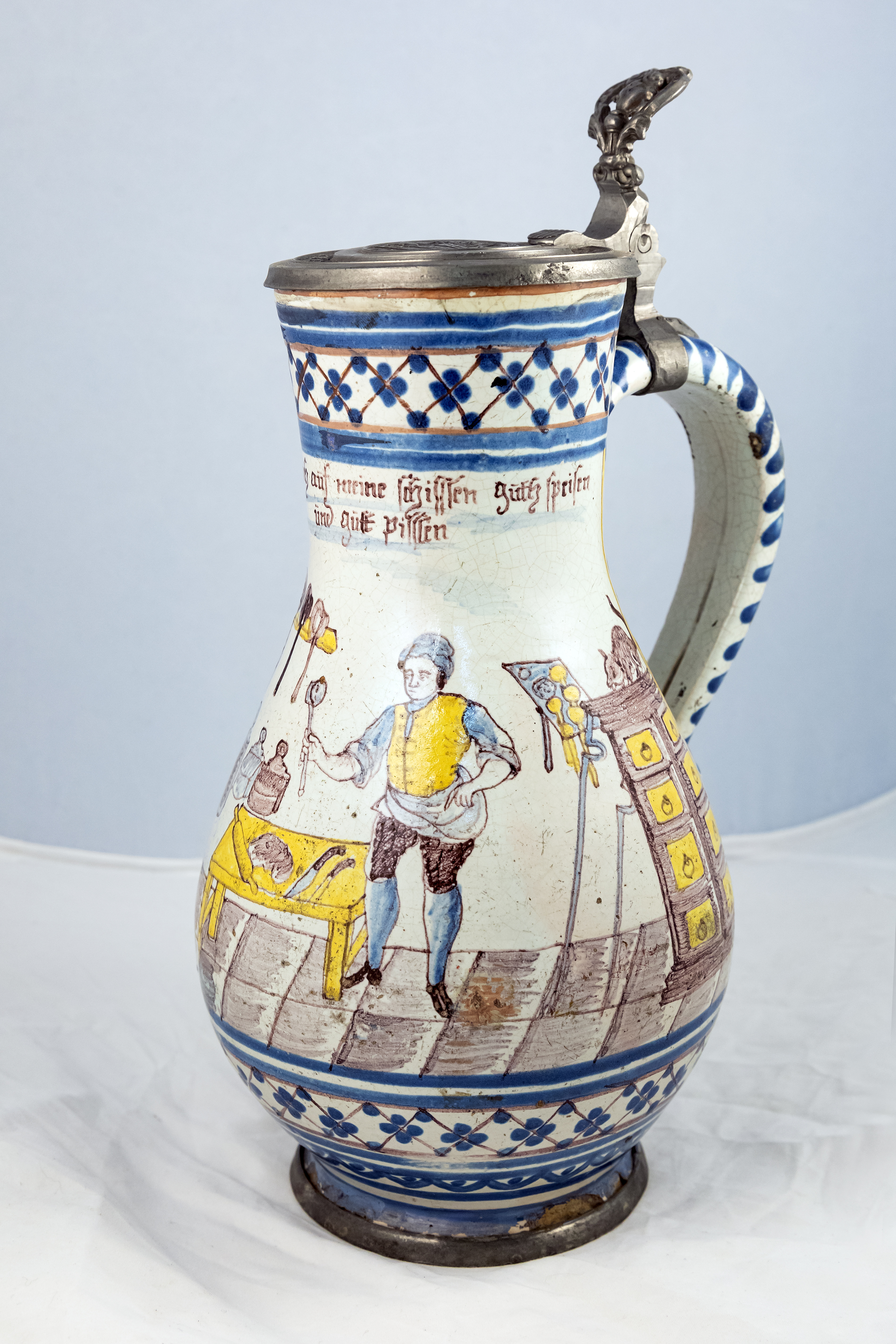 Jug, Gmundner Keramik (ceramic from Gmunden), 1780. Austrian Museum of Folk Life and Folk Art in Vienna, Austria.